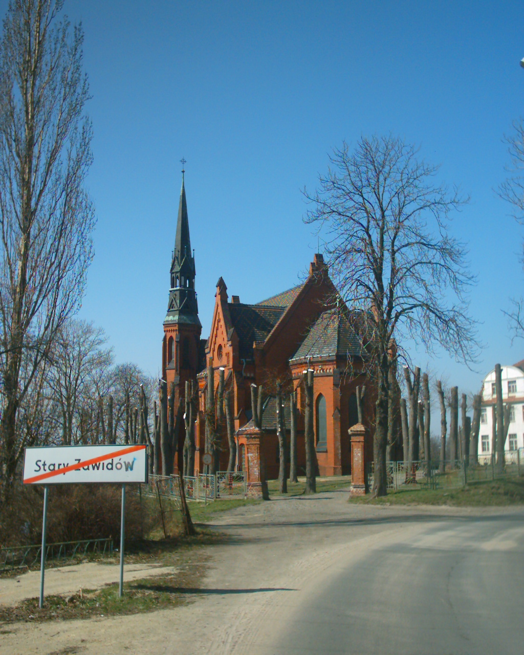 Catholic church in Zawidów